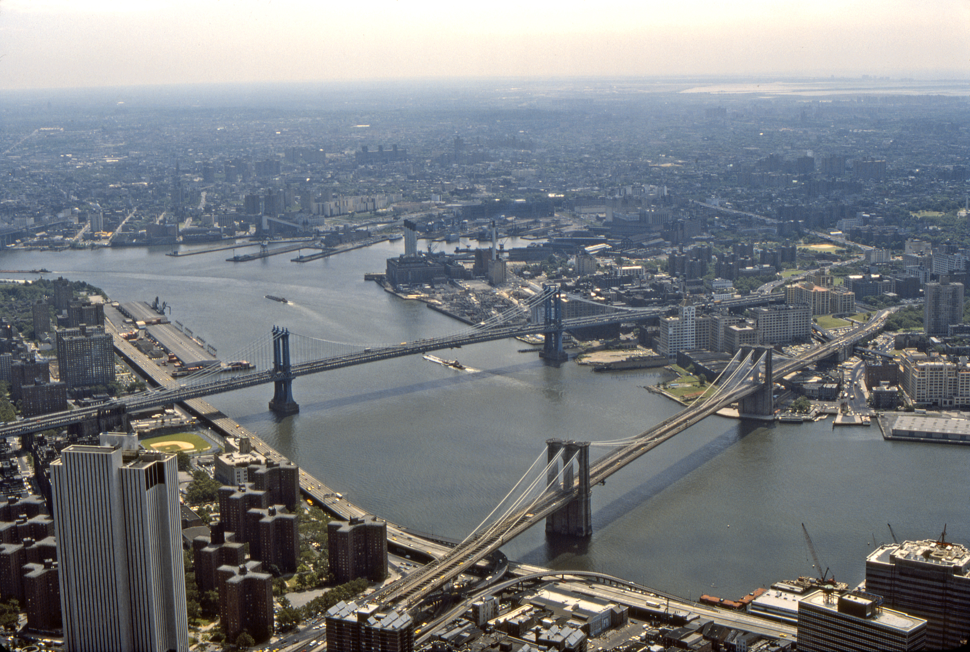 Brooklyn and Manhattan Bridges and East River view from Two WTC observation deck-1984.